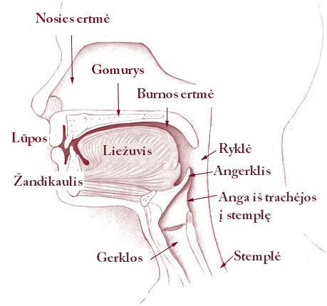 Head and Neck OverviewLietuvių: Galvos ir kaklo sritys